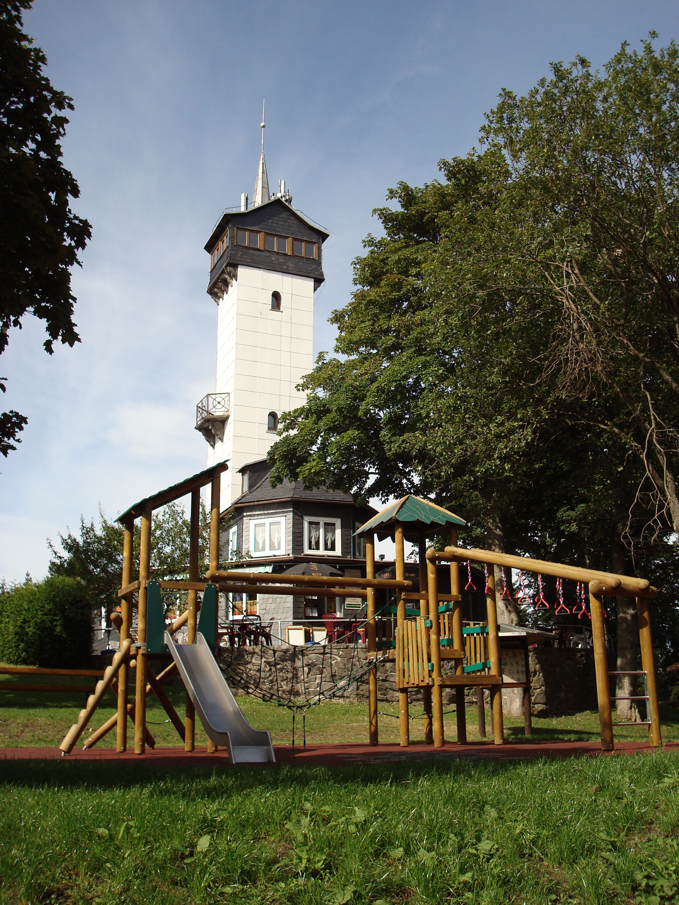 Berggasthaus Fröbelturm bei Oberweißbach - Spielplatz am Turm